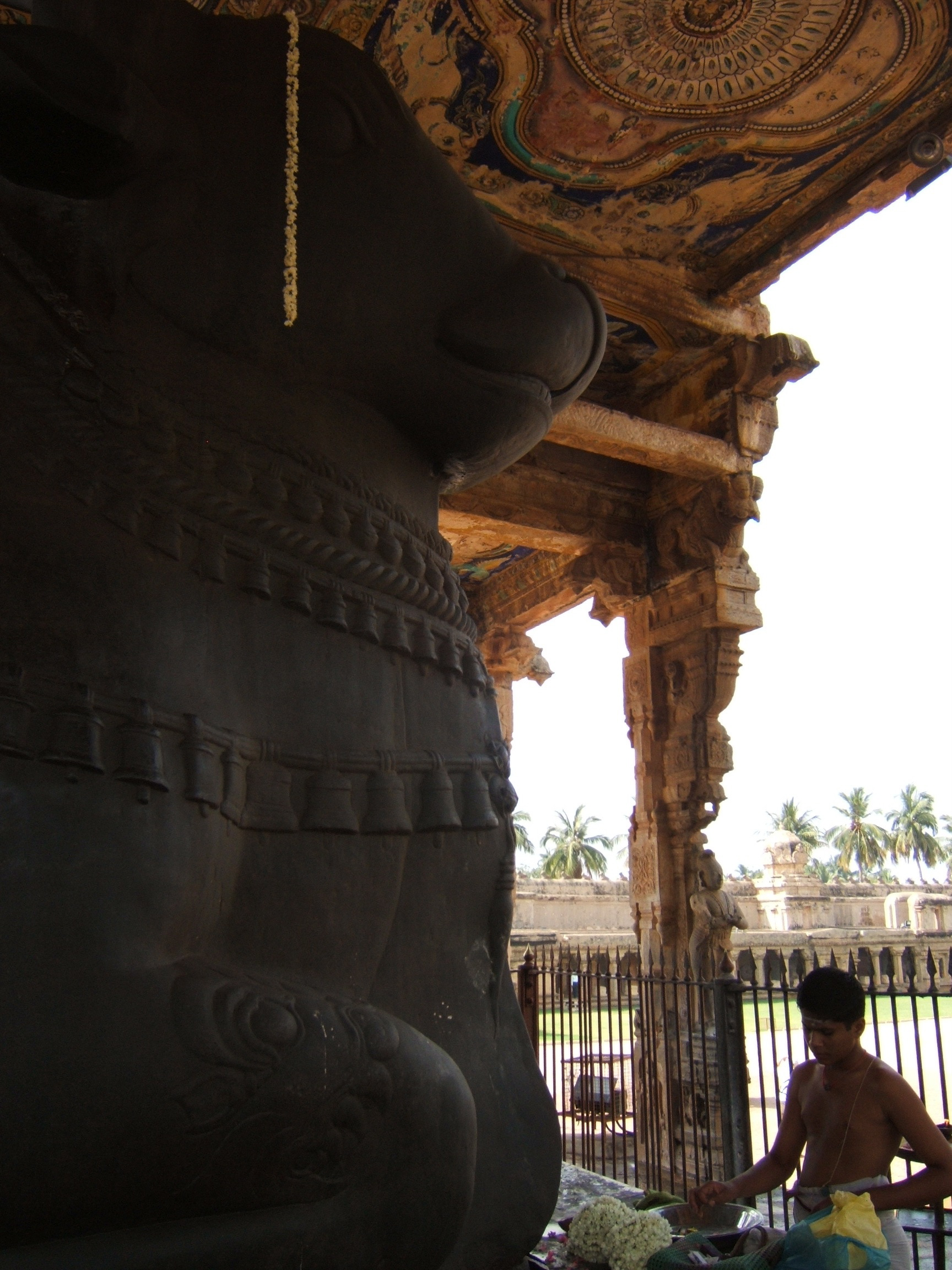 Brihadisvara Temple Nandi Bull 6 meter long carved out of a single granite block